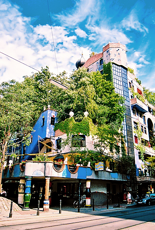 Austria, Vienna, Hundertwasserhaus